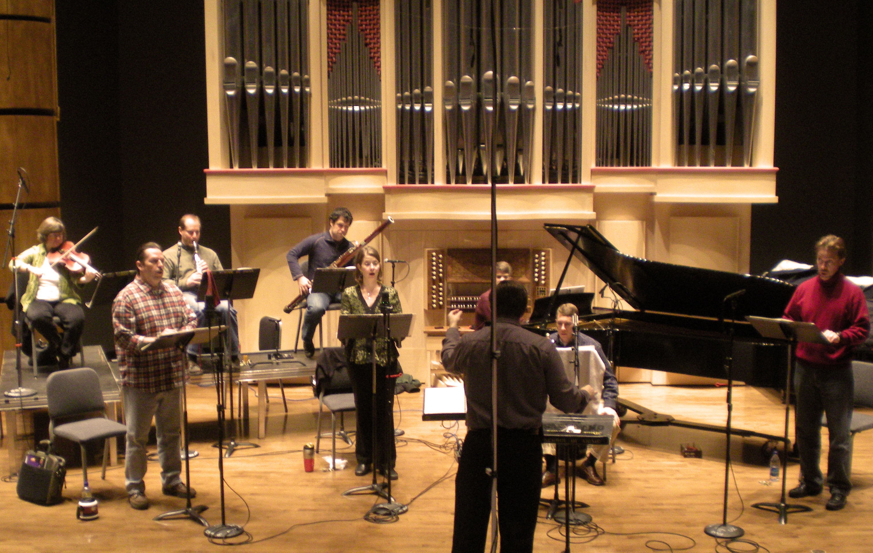 A photograph of The Palmetto Camerata's .GABRIEL recording session. January 5, 2010, University of South Carolina Recital Hall. James Ackley (trumpet, Gabriel), Tina Milhorn Stallard (soprano, Principal), Walter Cuttino (tenor, Memory I), Jacob Will, (baritone, Memory II), Joseph Eller (clarinet), Constance Gee (viola), Michael Harley (bassoon), Joseph Rackers, piano, Neil Casey (conductor).